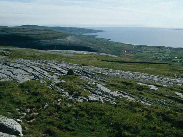 The Burren's western scarp, from Murrooghkilly Looking south across the Khyber Pass (Caher River valley) to the ice-rounded western scarp of this limestone hill range.